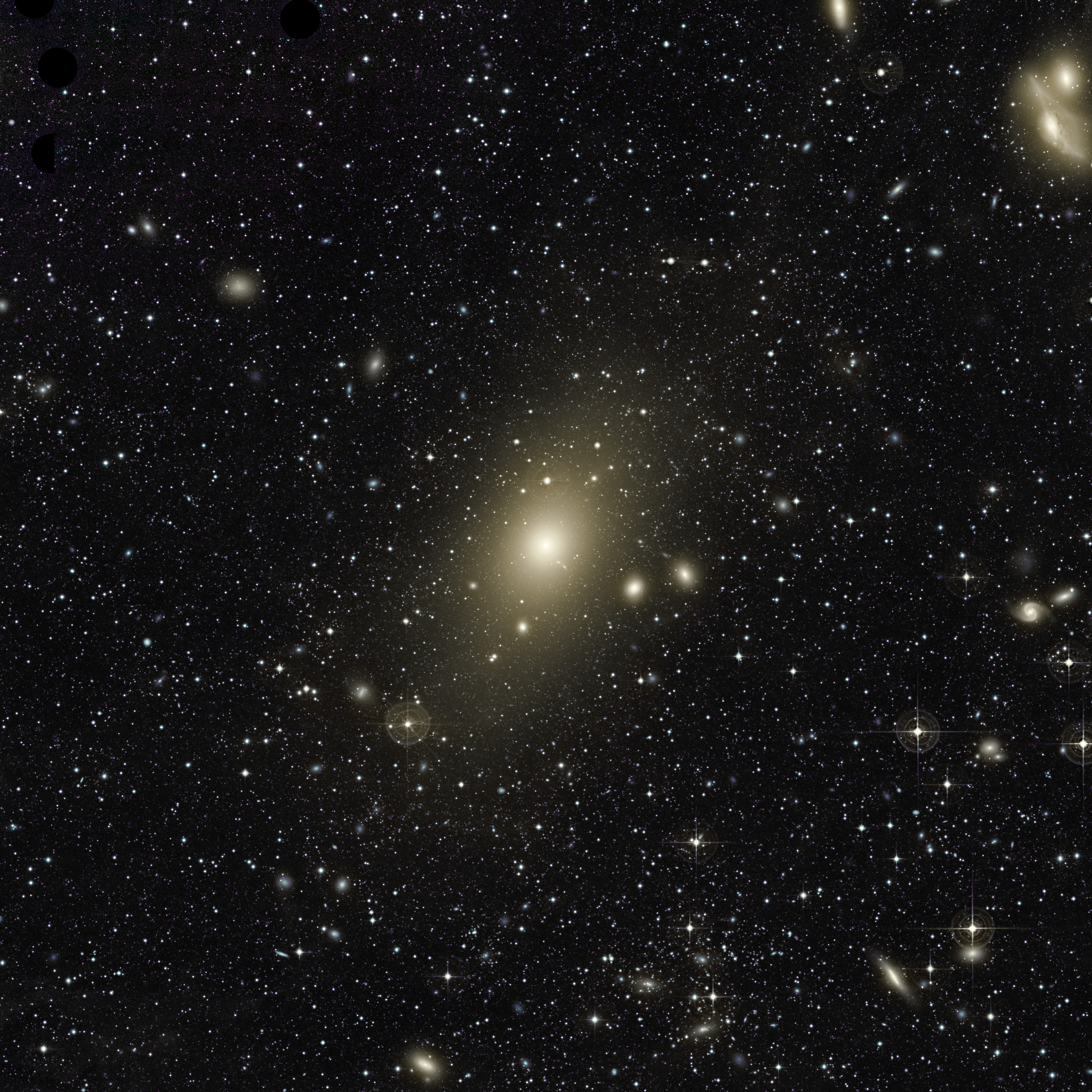 The huge halo around giant elliptical galaxy Messier 87 appears on this very deep image. An excess of light in the top-right part of this halo, and the motion of planetary nebulae in the galaxy, are the last remaining signs of a medium-sized galaxy that recently collided with Messier 87. The image also reveals many other galaxies forming the Virgo Cluster, of which Messier 87 is the largest member. In particular, the two galaxies at the top right of the frame are nicknamed "the Eyes". The field of view shown is about 1.5 degrees wide, or about 15 pixels per arc minute at 1280x1280 resolution. The galactic core of 45 arc seconds has a resolution of about 10 pixels across.